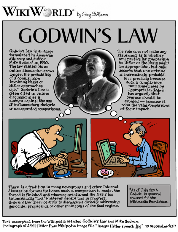 WikiWorld comic based on the articles "Godwin's Law" and "Mike Godwin"; photograph of Adolf Hitler from Wikipedia image file "File:Hitler speech.jpg"